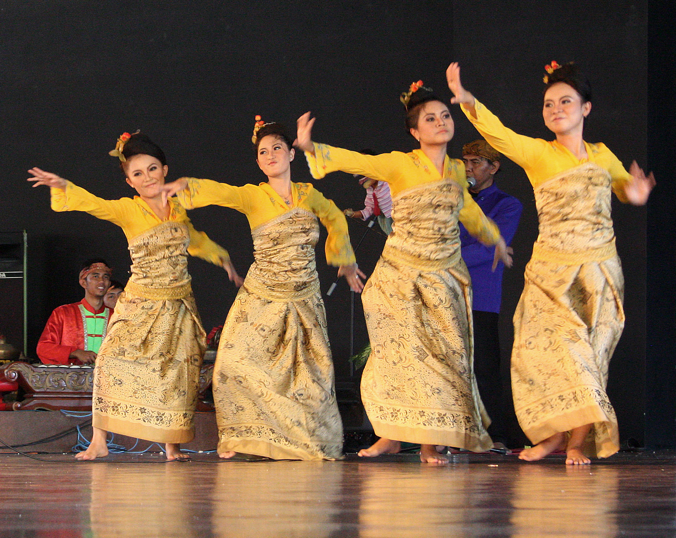 The Sundanese Jaipongan Mojang Priangan dance performance in West Java Pavilion, Taman Mini Indonesia Indah, Jakarta.